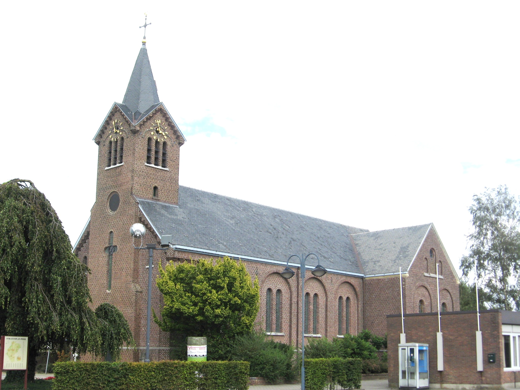 Church of the Immaculate Conception of Our Lady in Peer (Linde), Limburg, Belgium